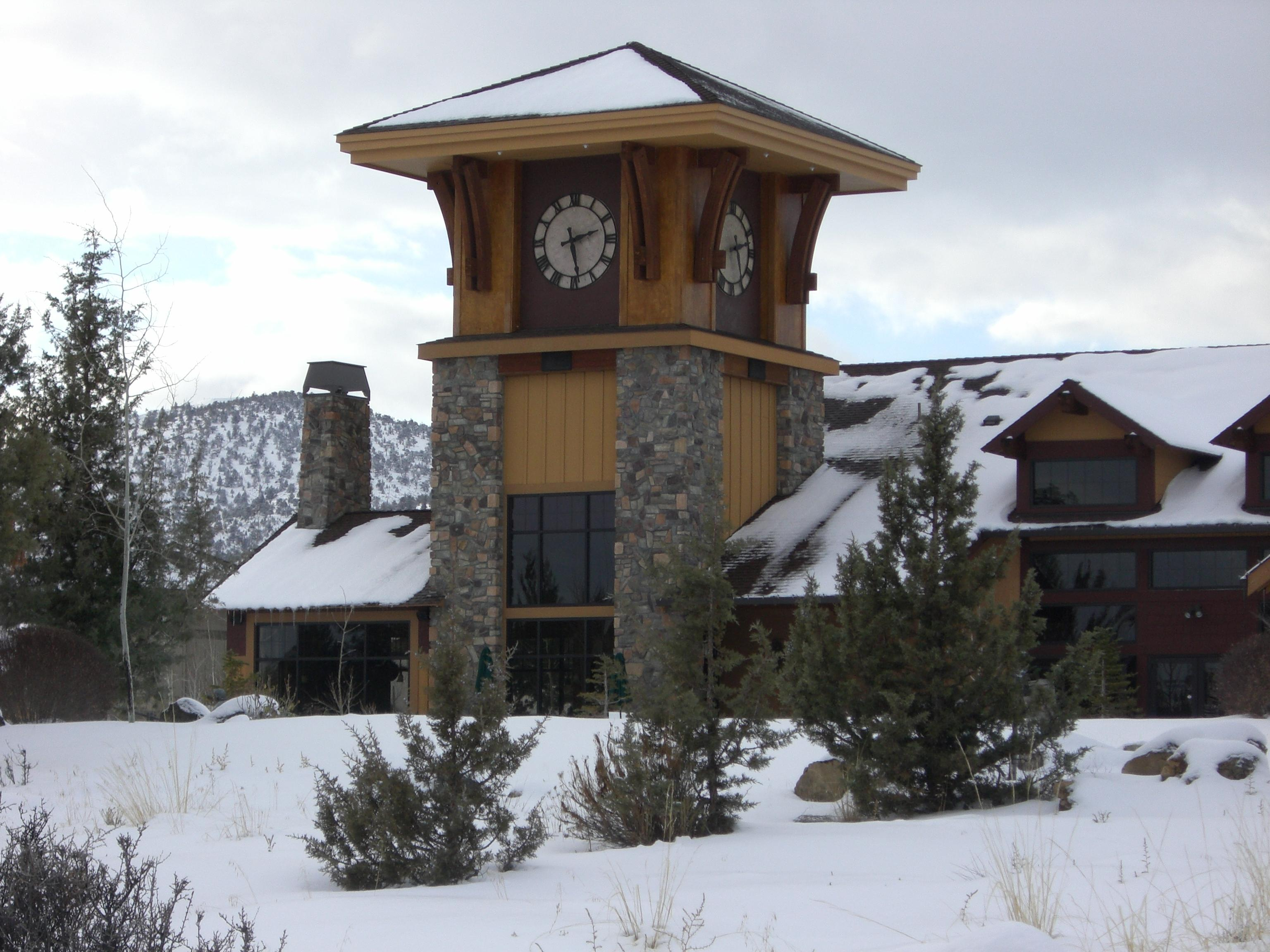 Clock Tower at Eagle Crest Resort near Redmond, Oregon